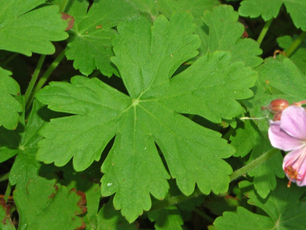 Geranium caespitosum var. fremontii - Pratorindanino, Genova